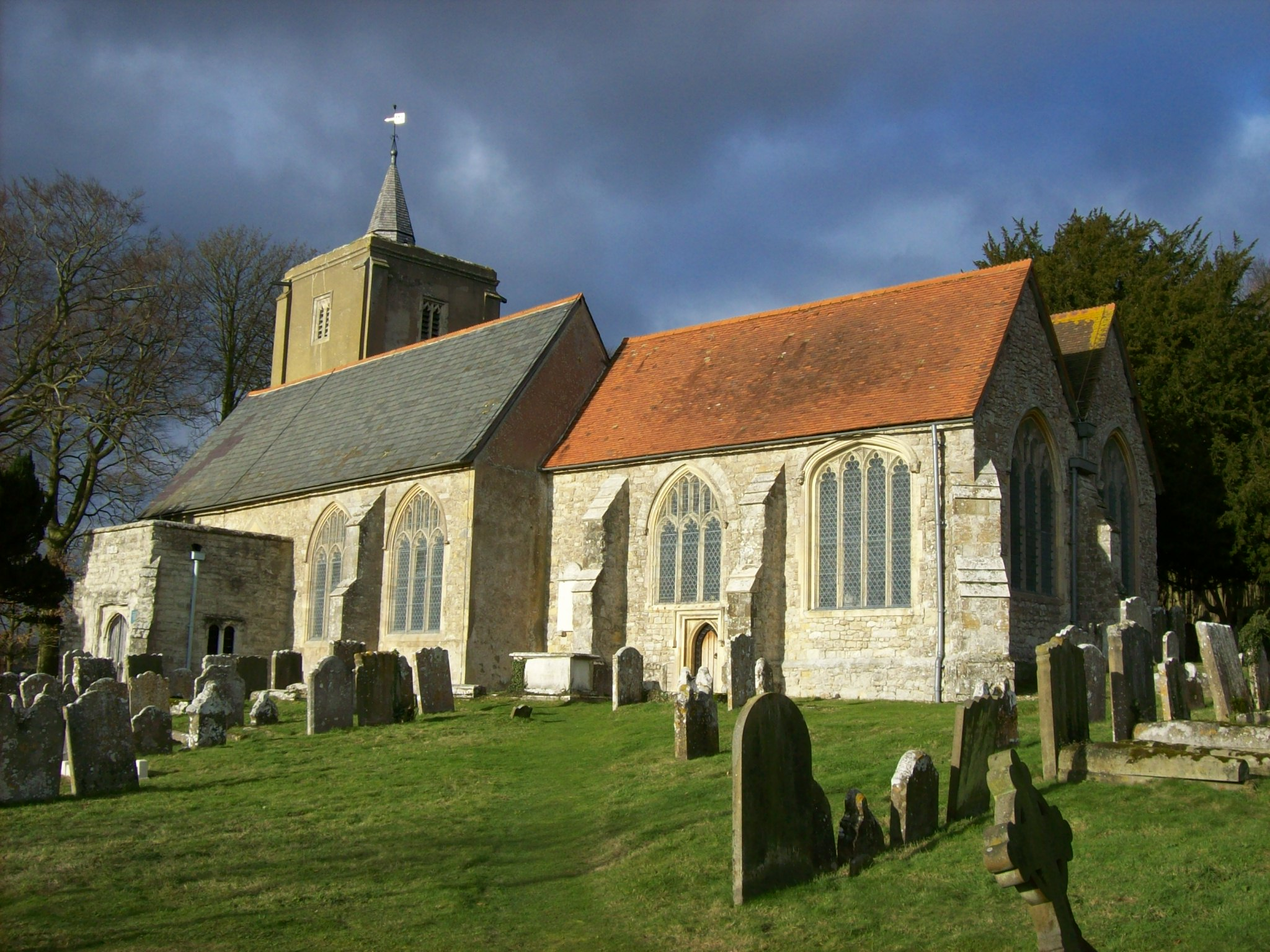 St Michael's parish church, East Peckham, Kent, seen from the southeast